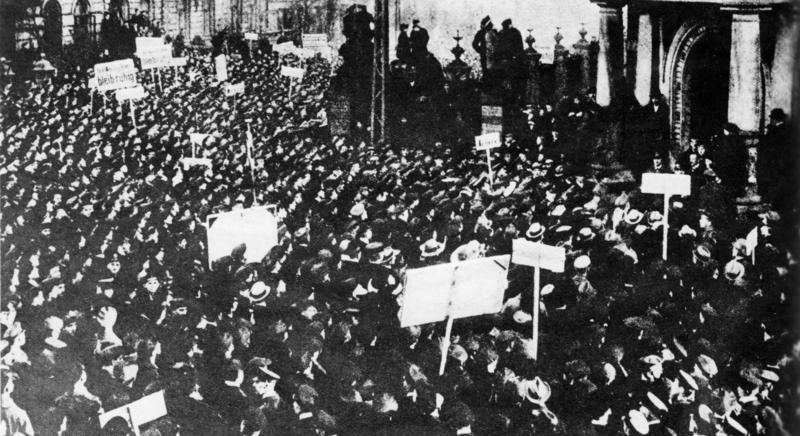 On 4 November 1918 there were denials command within the German fleet. Rallies in elimination of war followed. In this, critical situation for the government, the rule of socialist Noske were sent to Kiel to stifle the revolution in the bud. Shown here:. Looking at a peace rally of the sailors in Kiel.